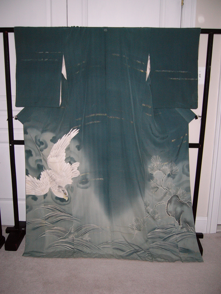 Geisha kimono (known as a hikizuri or susohiki) with a motif of waves and hawk; the hawk is unusual for a woman's kimono. Geisha kimonos are longer than regular ones; "susohiki" means "trailing skirt"